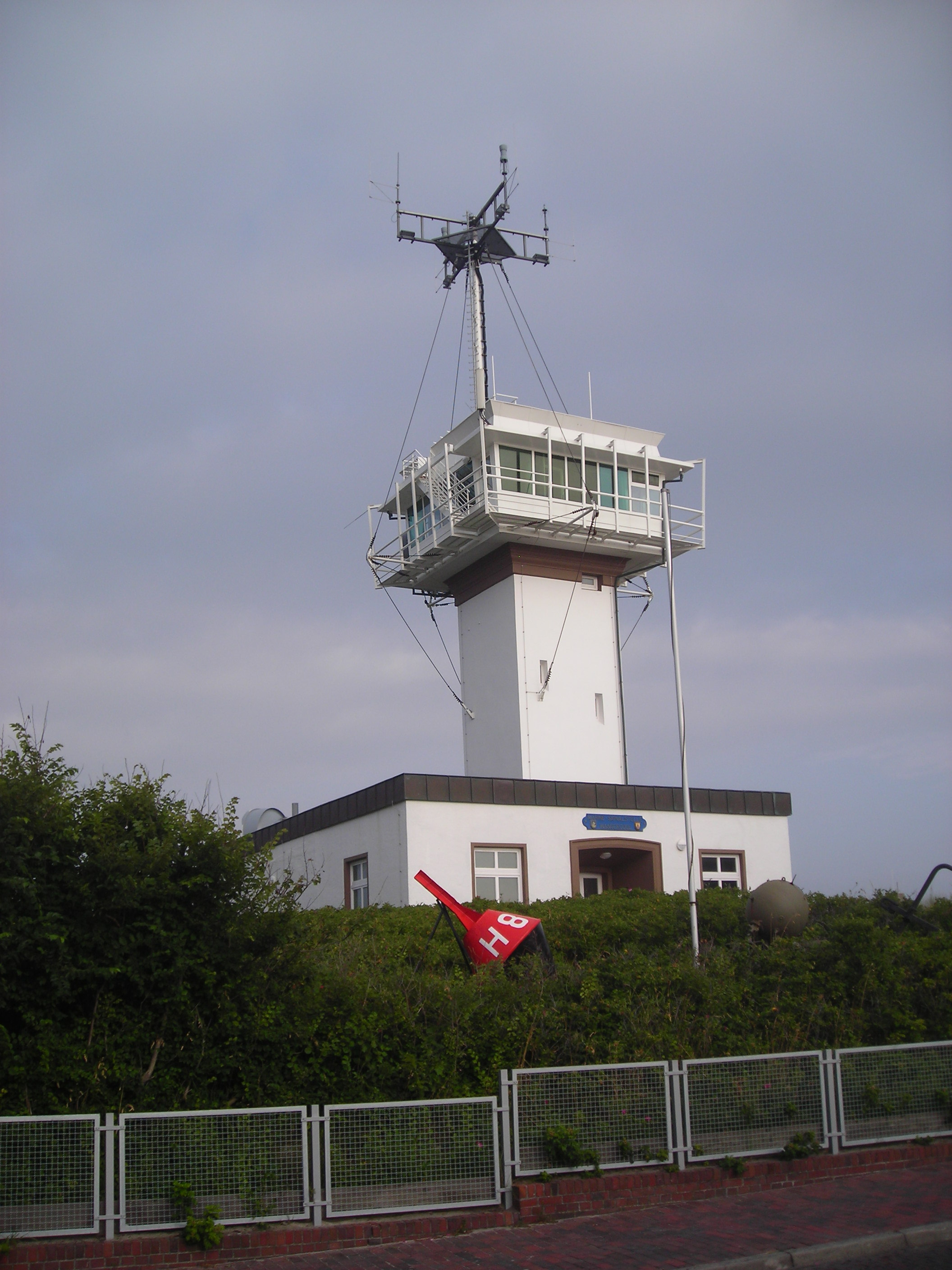 Naval Signal Station Wangerooge, Germany